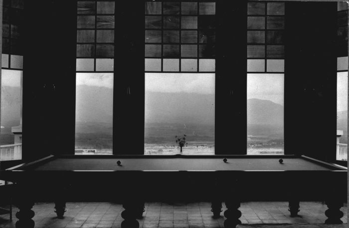 The Billiart room in the sanatorium near Garoet